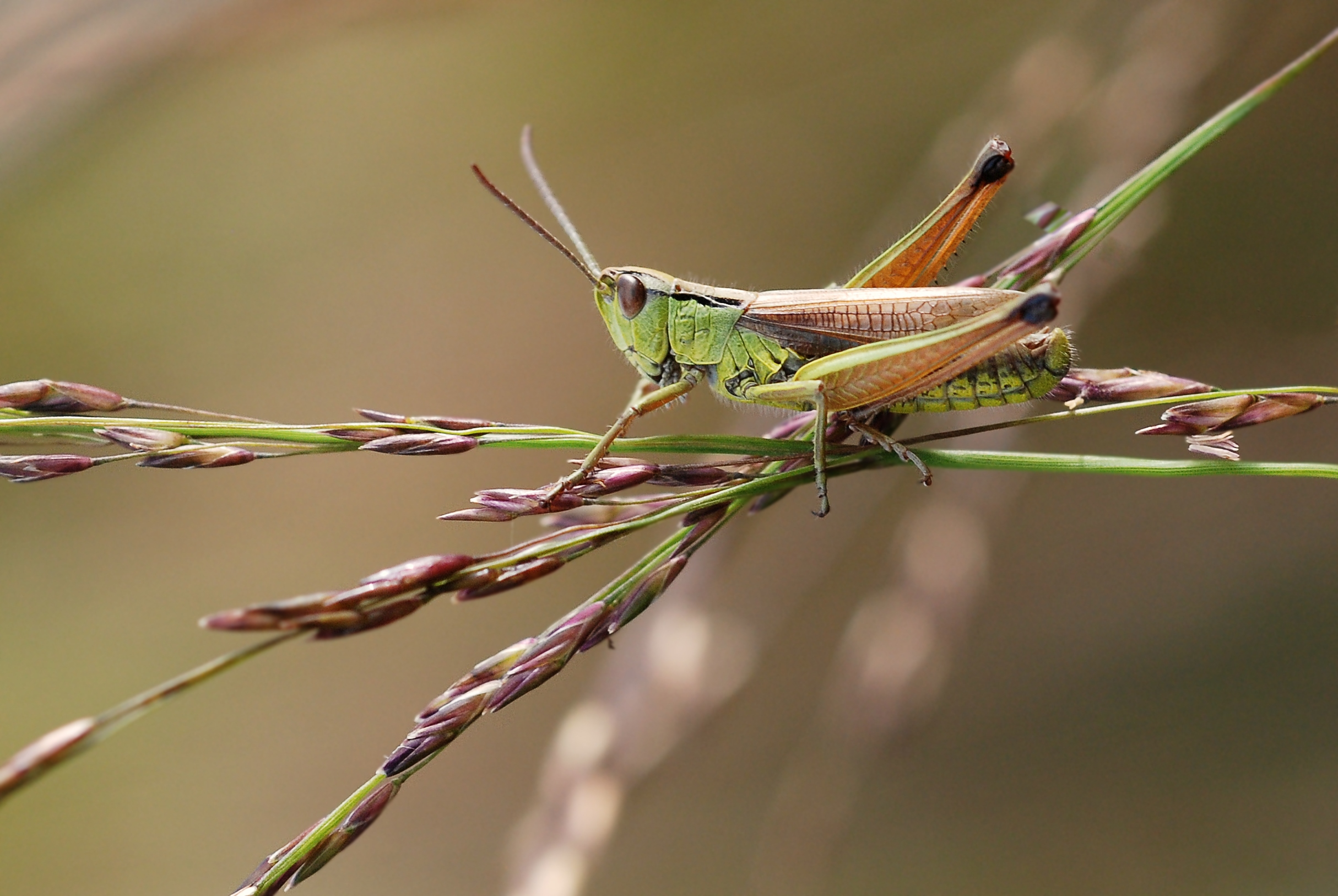 A male of the grasshopper Chorthippus montanus (Orthoptera Acrididae Gomphocerinae) Locality : Fagne de la Polleur, Theux, Belgium